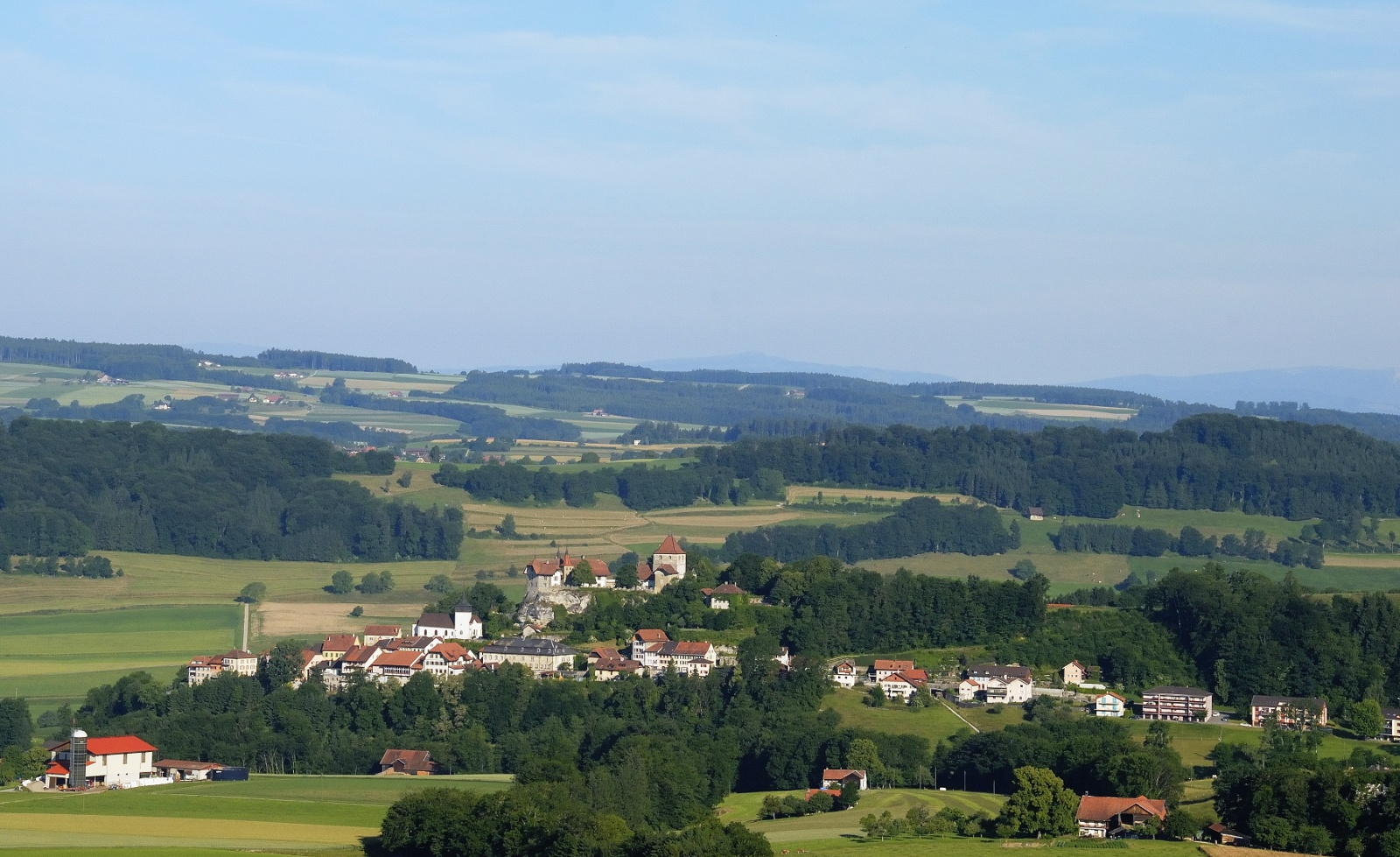 City of Rue, Fribourg area, Switzerland